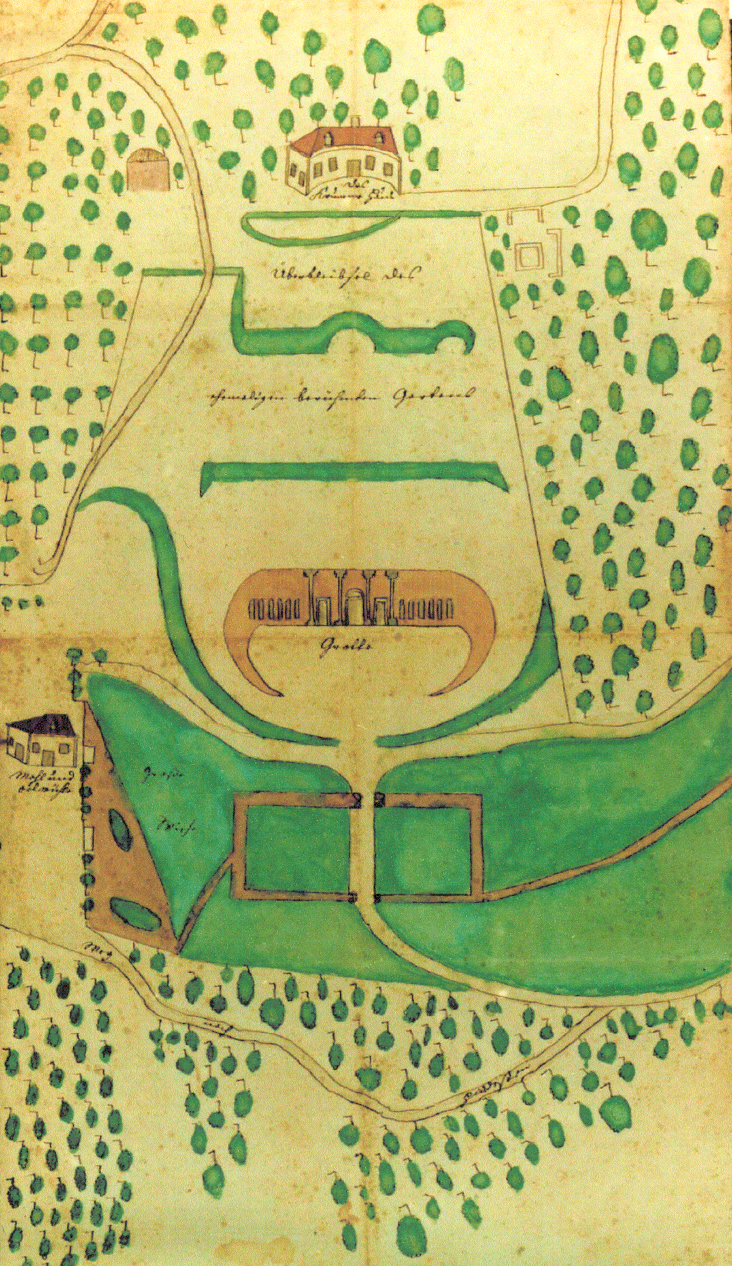 Former Friedrichstal from 1770 near Detmold, Germany